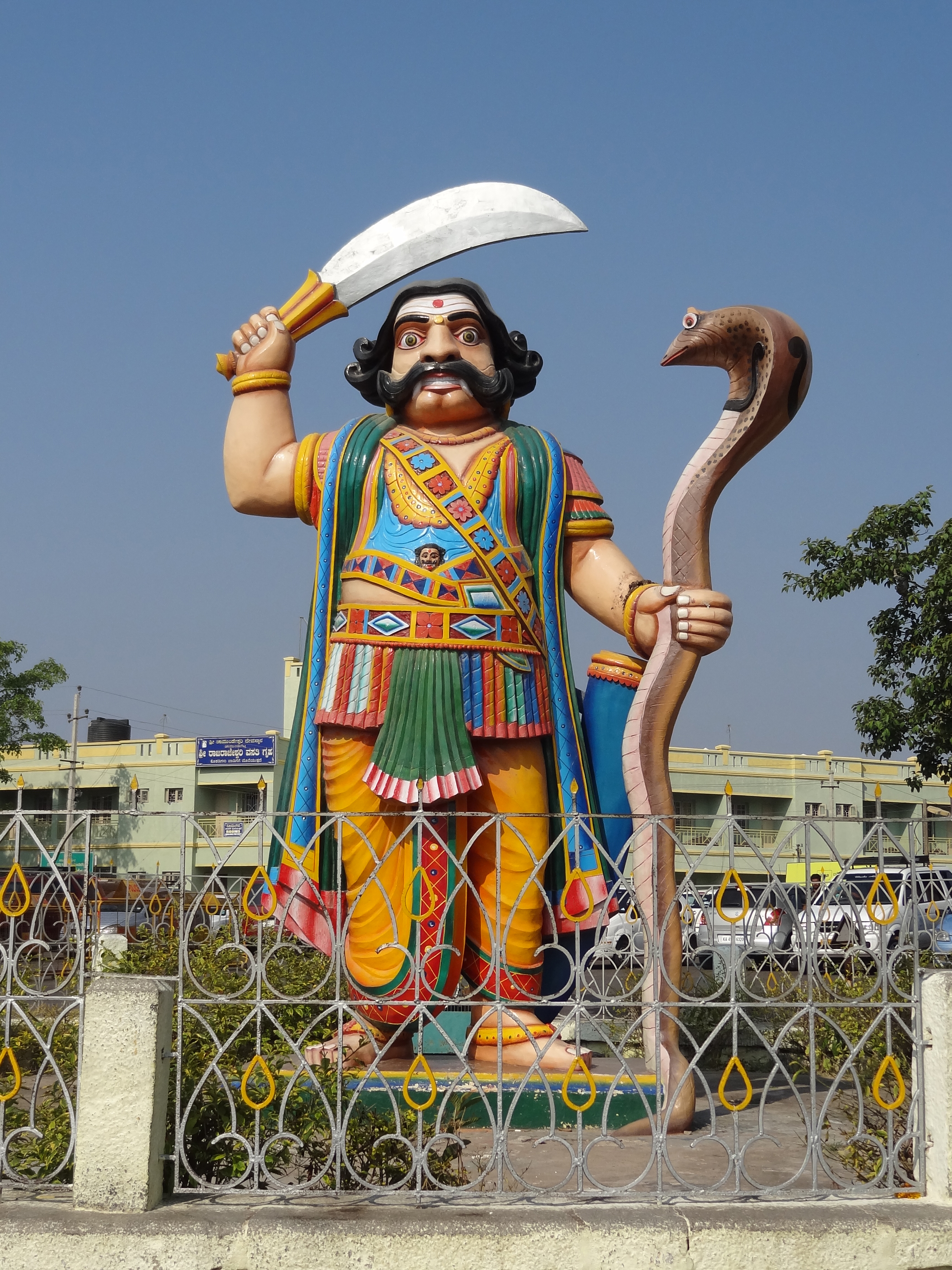 Chamundesvari Temple and Mahabalesvara Temple on hill